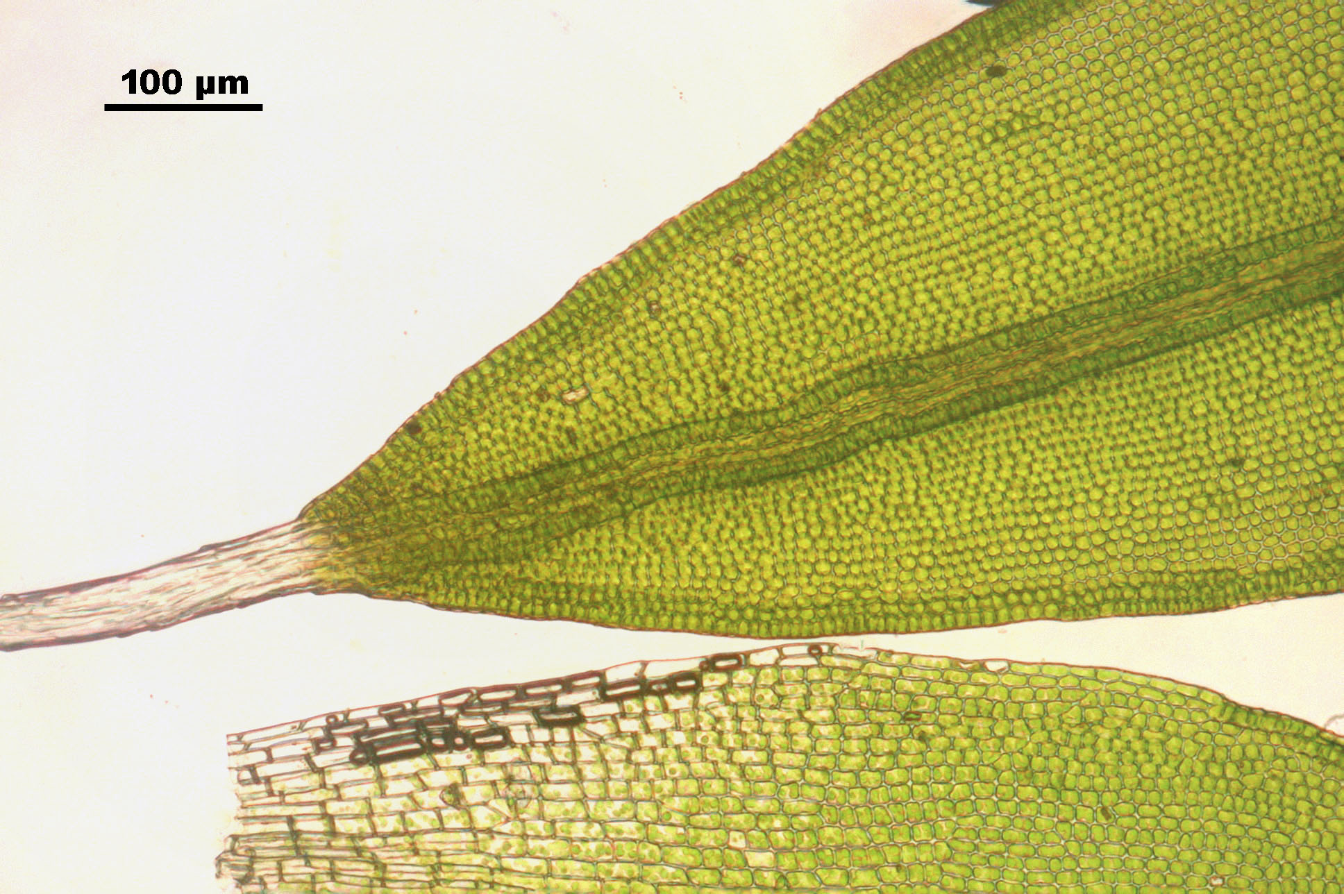 Grimmia pulvinata